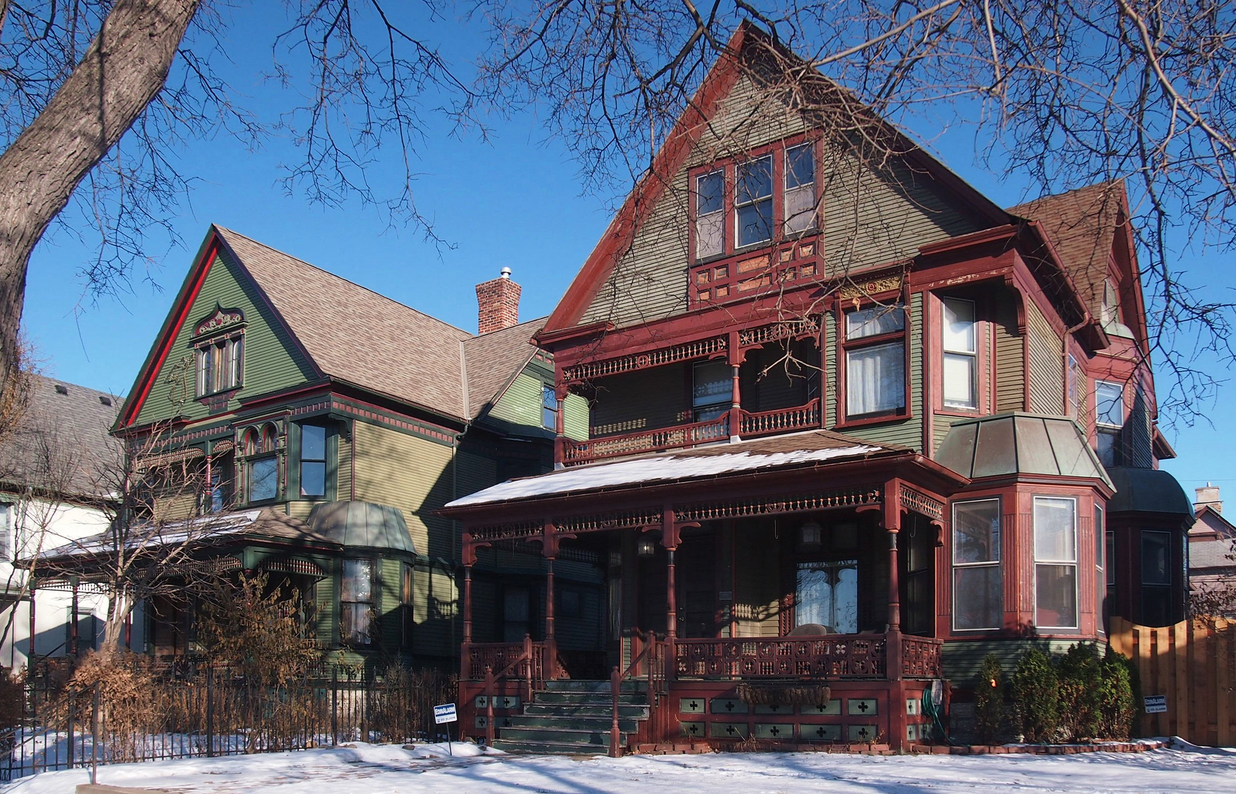 Joseph B. Hudson and Healy-Rea Houses (3127 and 3131 2nd Ave S), Healy Block Residential Historic District, Minneapolis, Minnesota, USA. Viewed from the southwest.